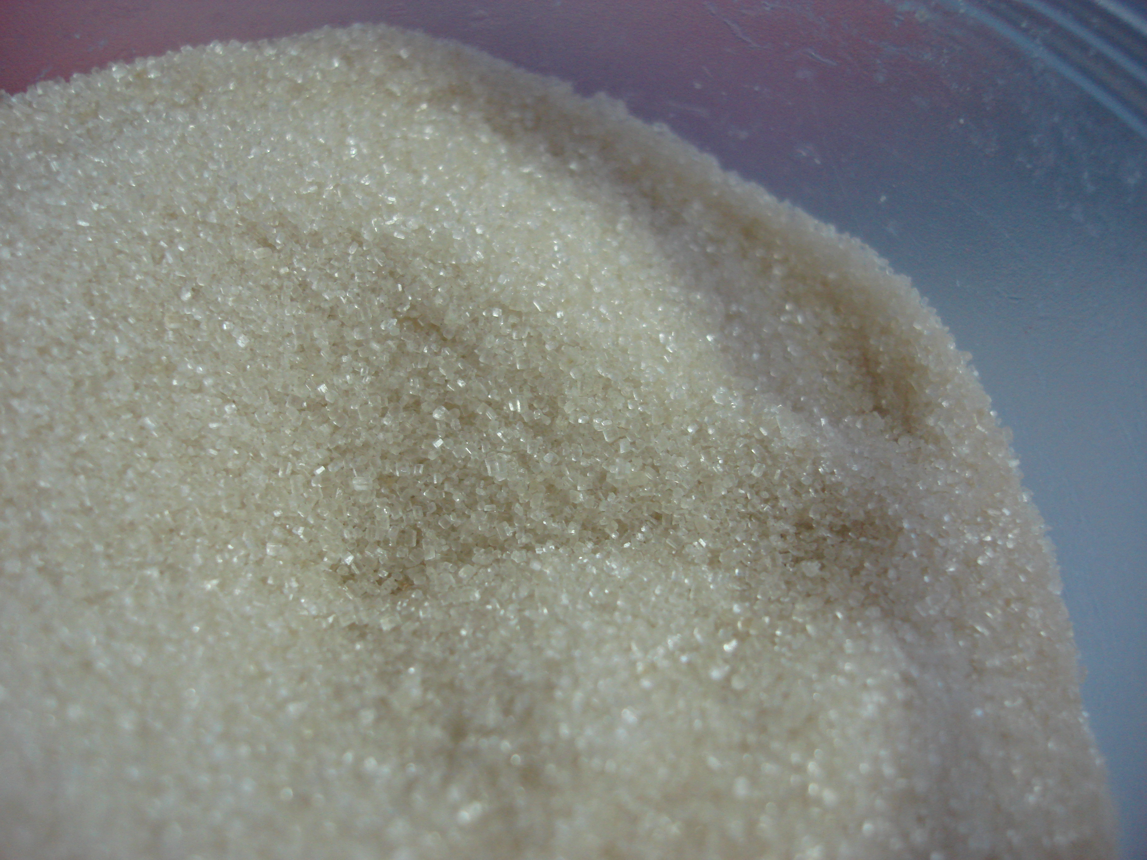 A bowl of raw (unrefined, unbleached) sugar, bought at the grocery store.